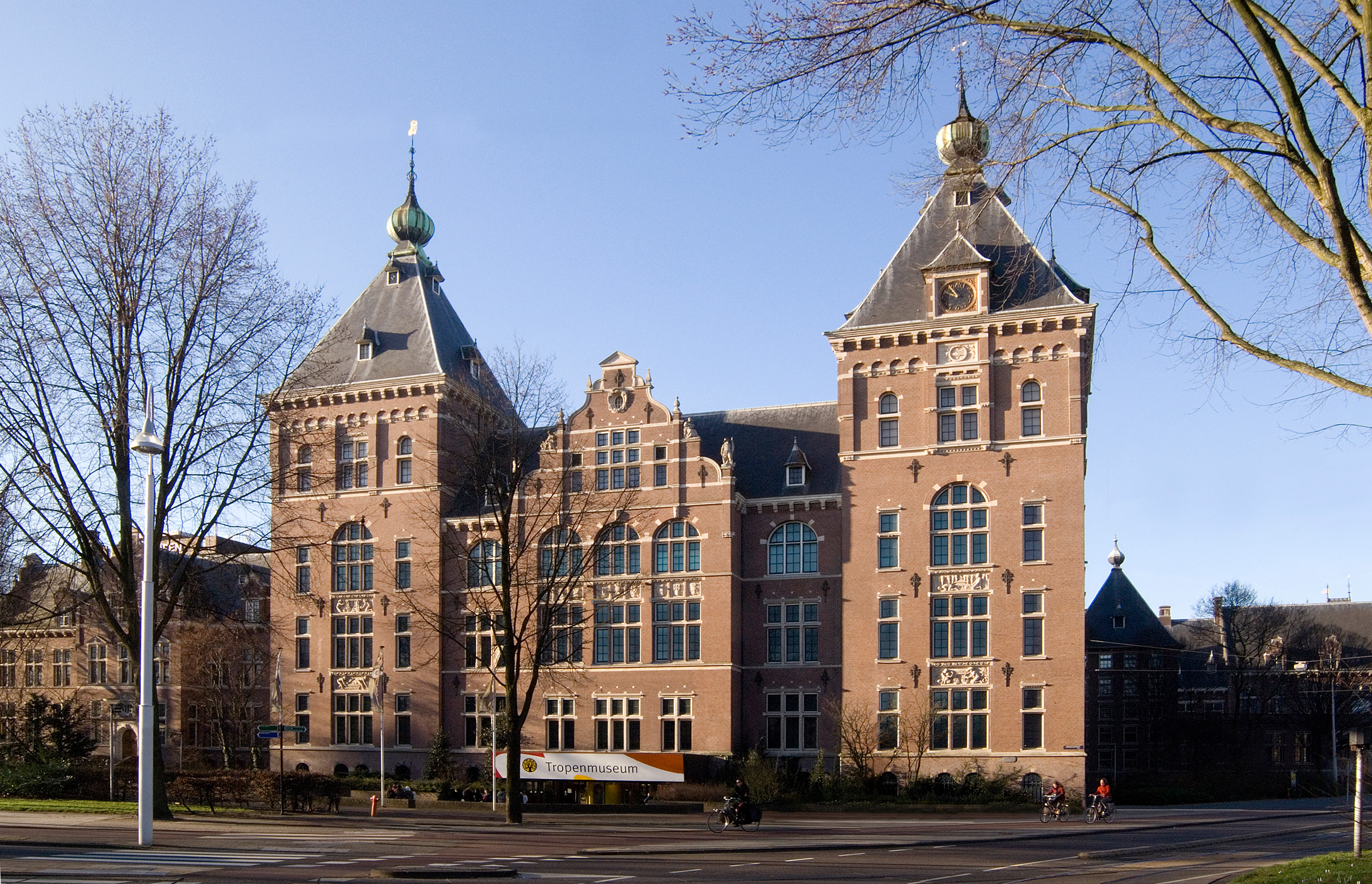 Entrance of the Tropenmuseum in Amsterdam. It replaces the picture of the entrance of the "Koninklijk Instituut voor de Tropen".